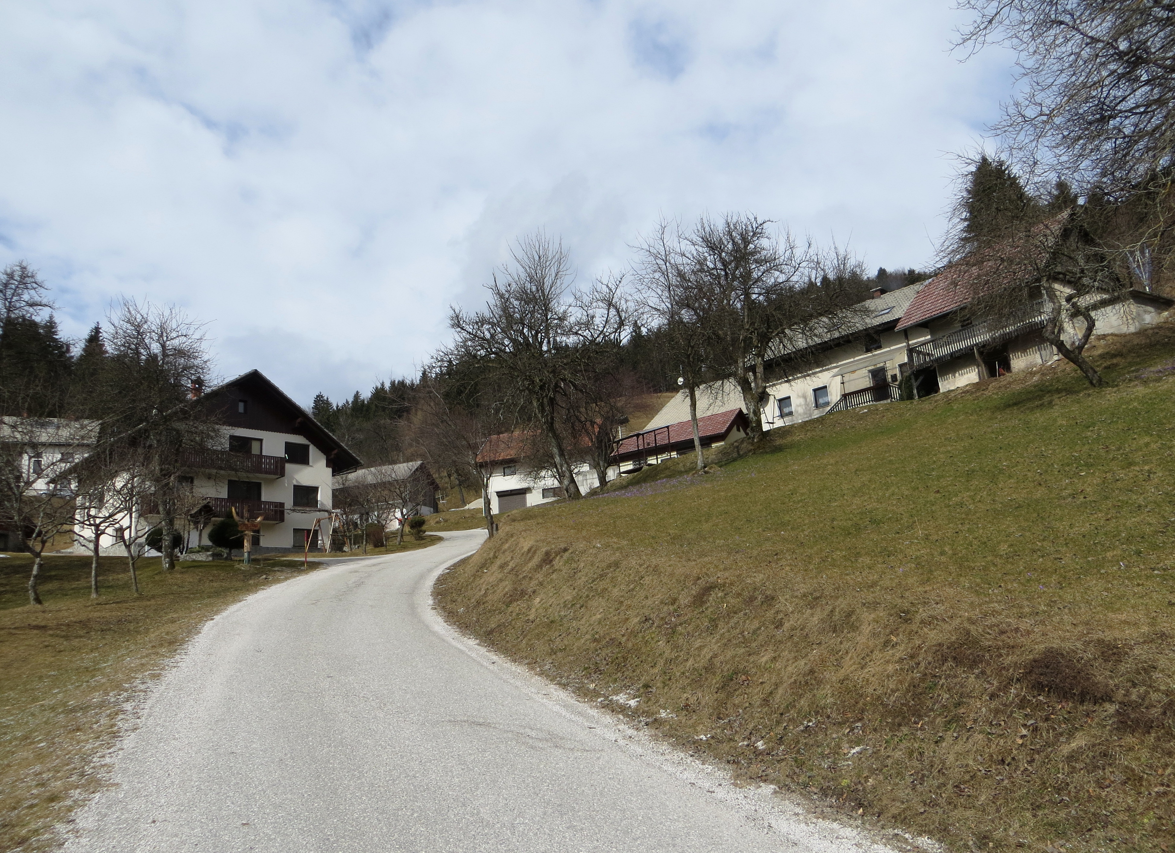 Poljana in the Municipality of Kamnik, Slovenia